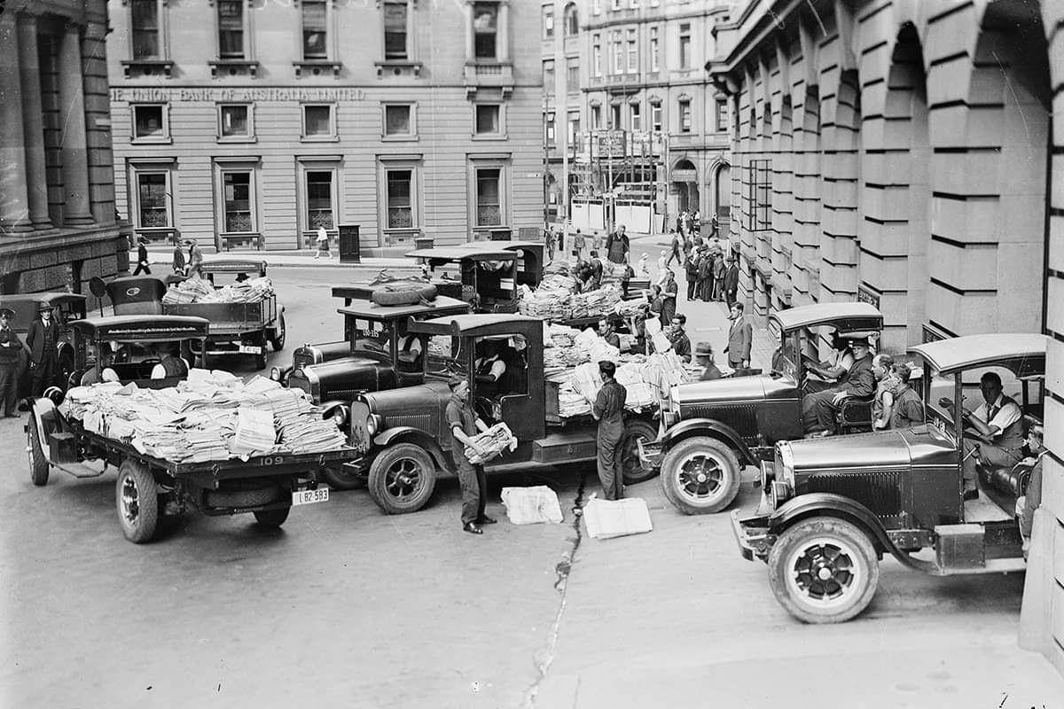 Image from the Fairfax Archive, National Library of Australia